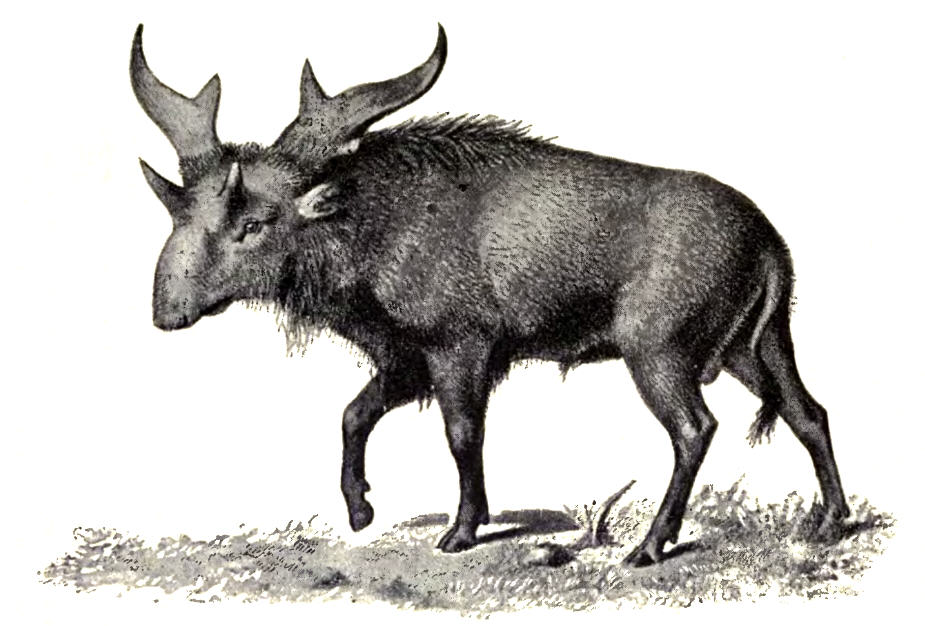 Sivatherium reconstruction